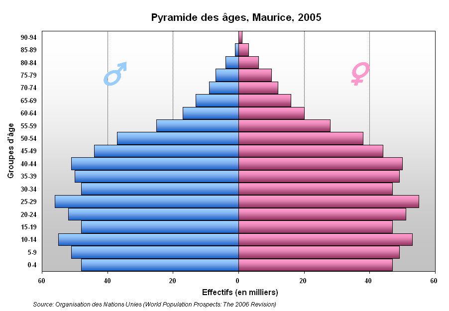 Mauritius Population pyramid, 2005